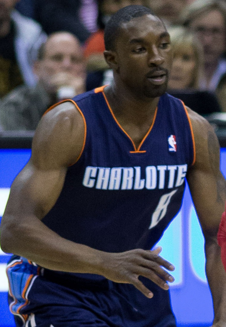 Charlotte Bobcats at Washington Wizards March 9, 2013